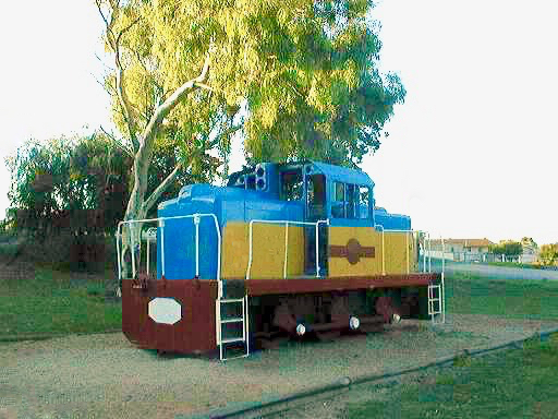 The shell of NC2 sitting in Hermitage Park, Port Lincoln - Photo taken 2001. The loco has since been sealed up to stop its use as a "public toilet".